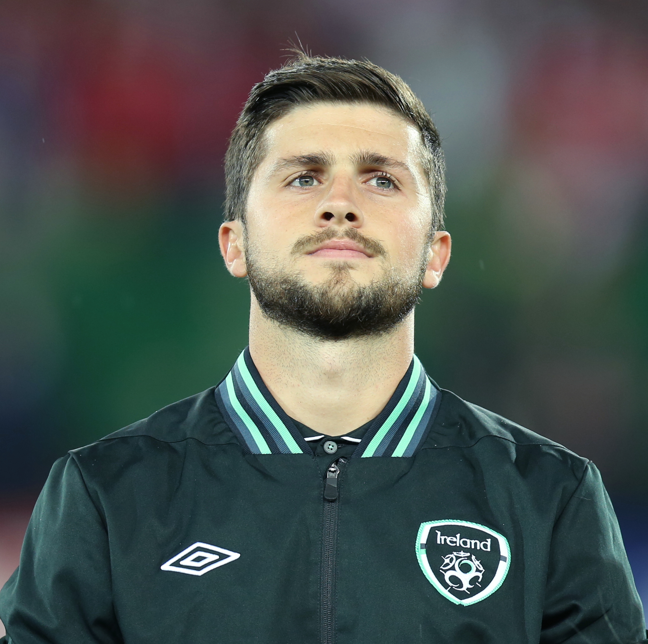 Shane Long, Irish tootballer (striker). The photo was taken before the 2014 FIFA World Cup qualification (UEFA), Group C match Republic of Ireland against Austria on 10 September 2013 at the Ernst-Happel-Stadion in Vienna. The making of this work was supported by Wikimedia Austria. For other files made with the support of Wikimedia Austria, please see the category Supported by Wikimedia Österreich.